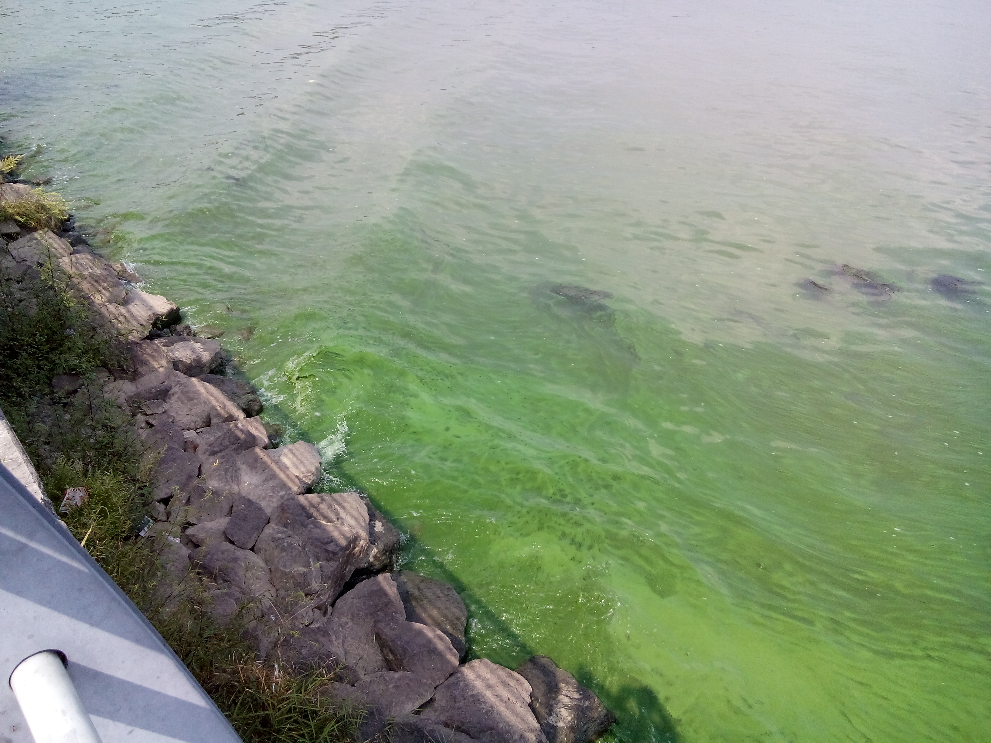 Сеул, Корея